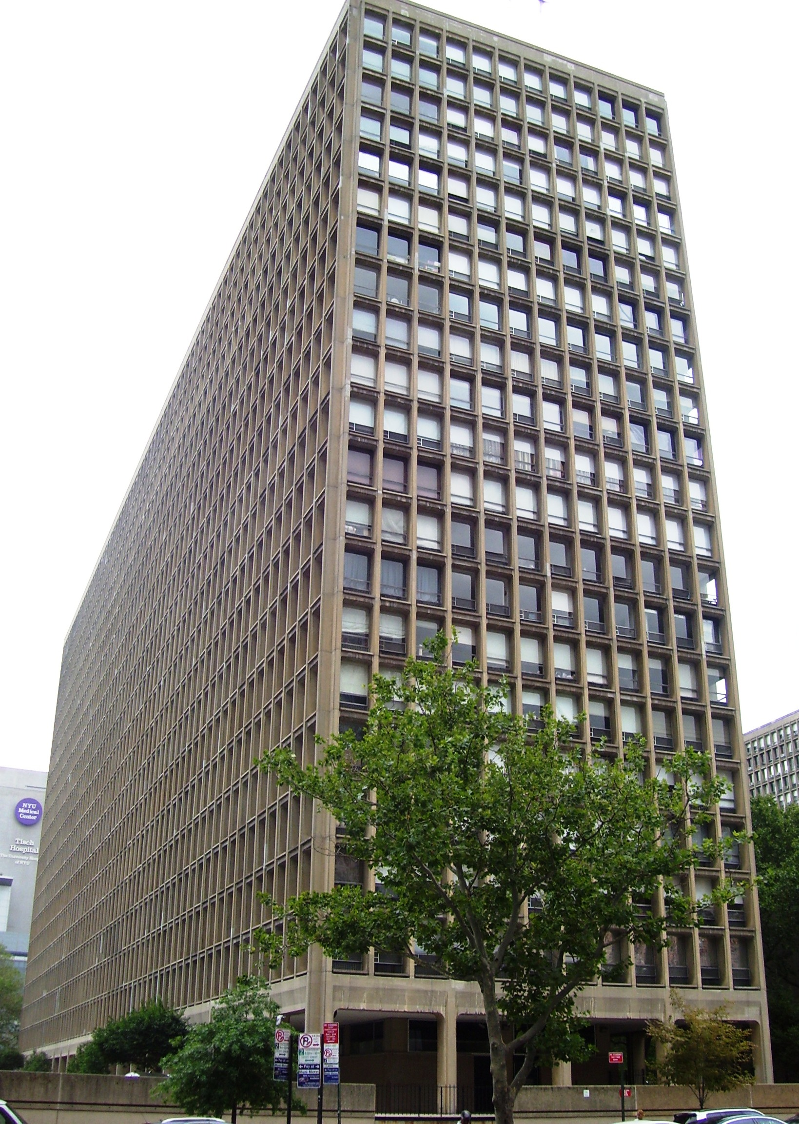 Kips Bay Plaza apartment complex, North Building, Kips Bay, Manhattan, New York City. Designed by I.M. Pei & Assoc. and S.J. Kressler. Completed 1965. (South Building (not shown) completed 1960). These were NYC's first exposed concrete apartment buildings.